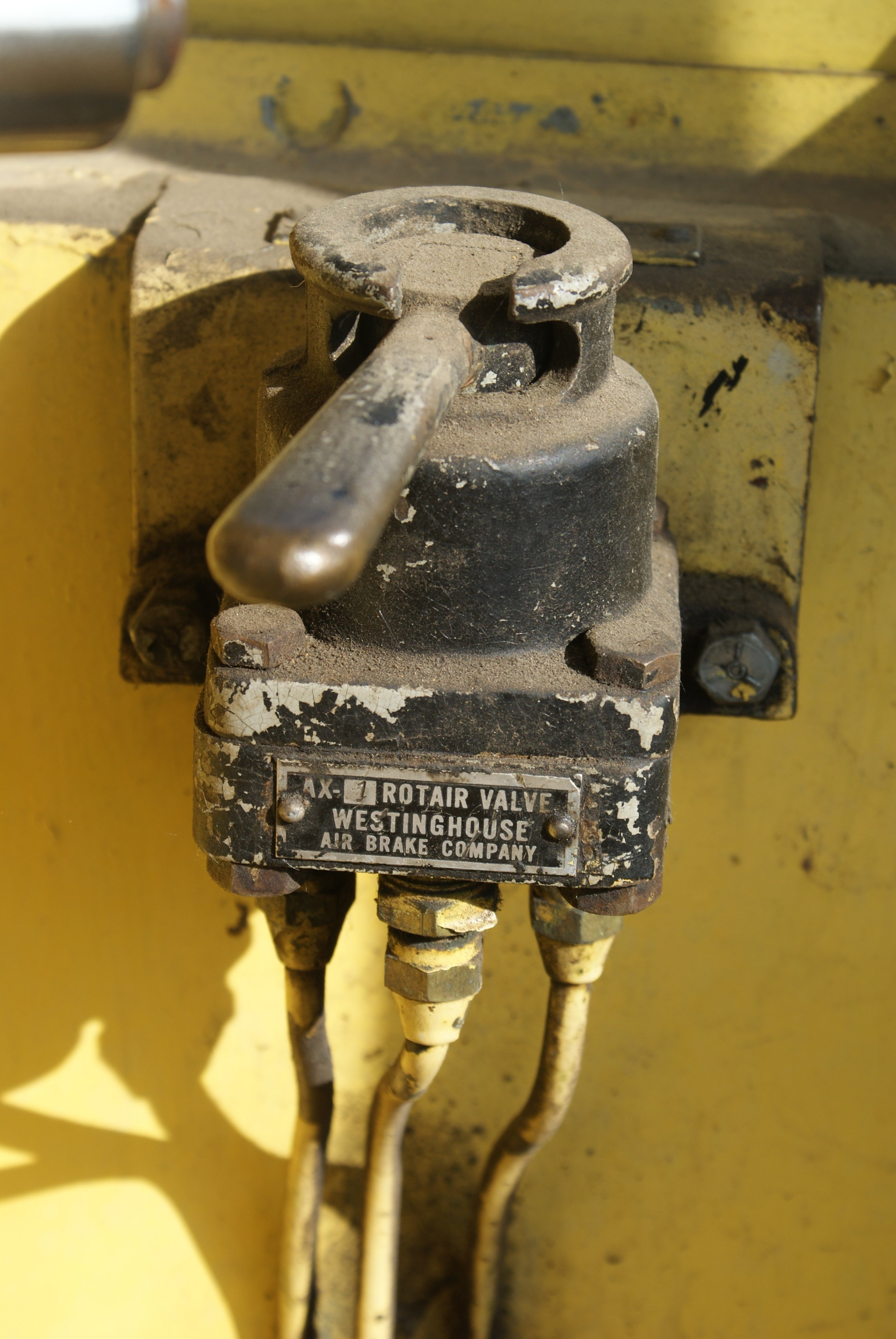 Rotair Valve Westinghouse Air brake Company... interior of locomotive at Saskatchewan Railway Museum